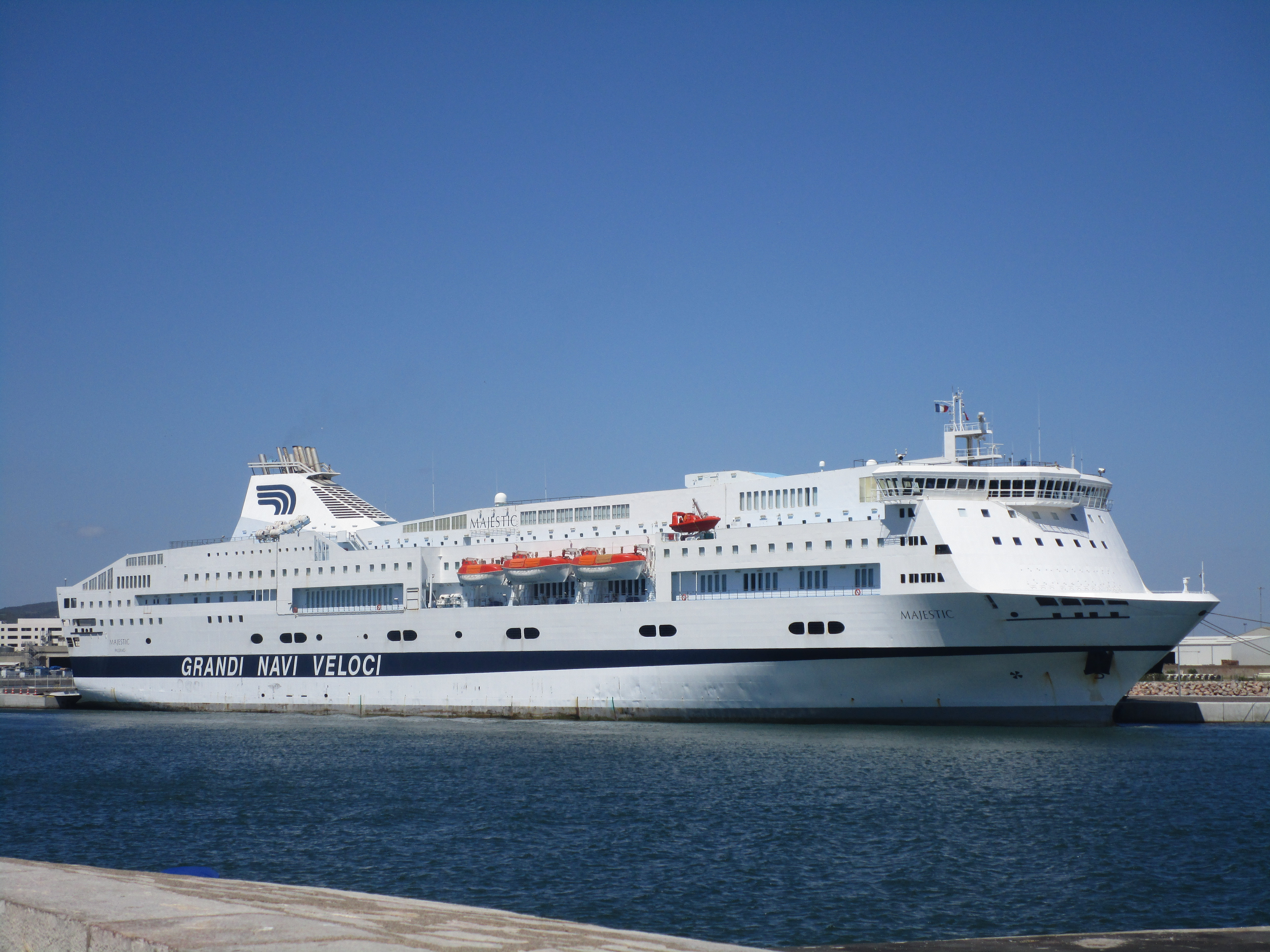 The ferry Majestic moored at Sète on July 27, 2015.